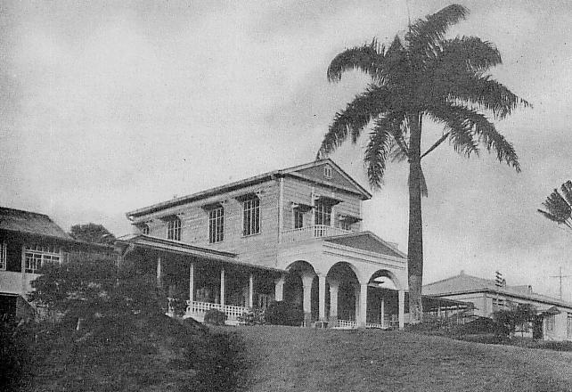 Nan'yo-cho(Administrative Headquarters of the South Pacific Mandate) Ponape Branch Office